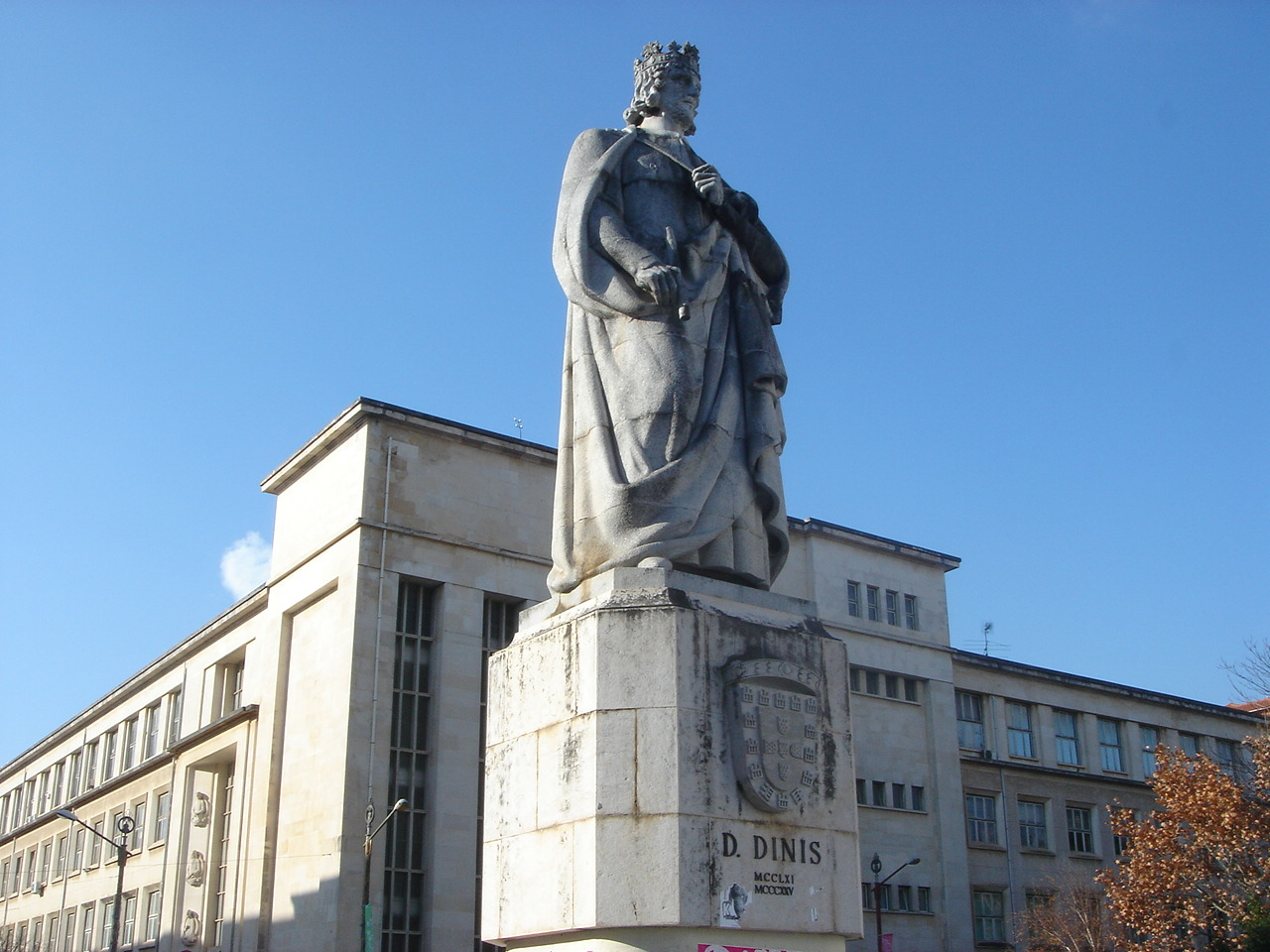 Statue of King Dinis I in the University of Coimbra, Portugal